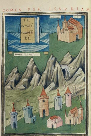 Comes per Isauriam from Notitia dignitatum